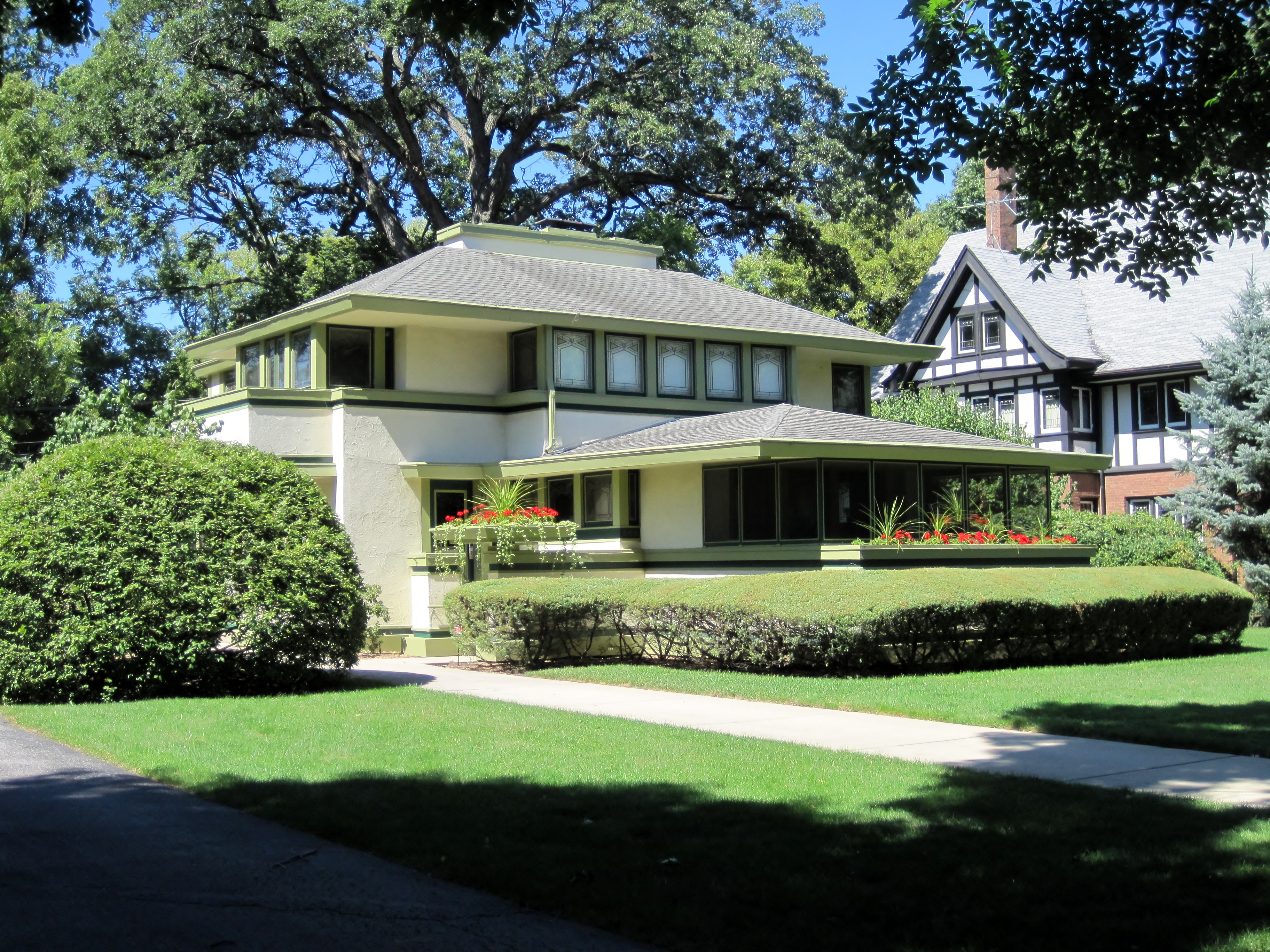 I (Teemu08 (talk)) took this image in September 2011.